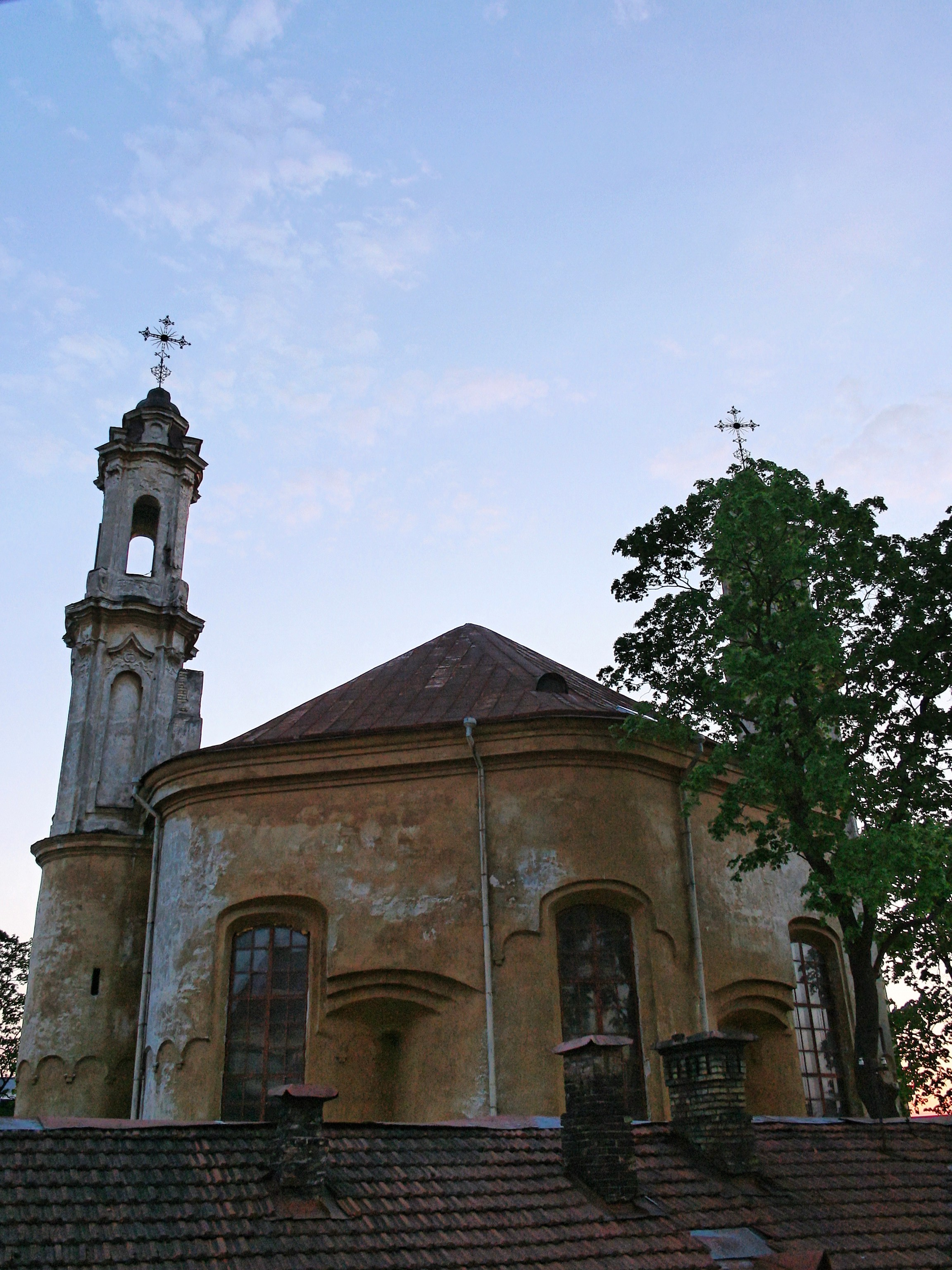 Greek Catholic Church of Holy Trinity in Vilnius